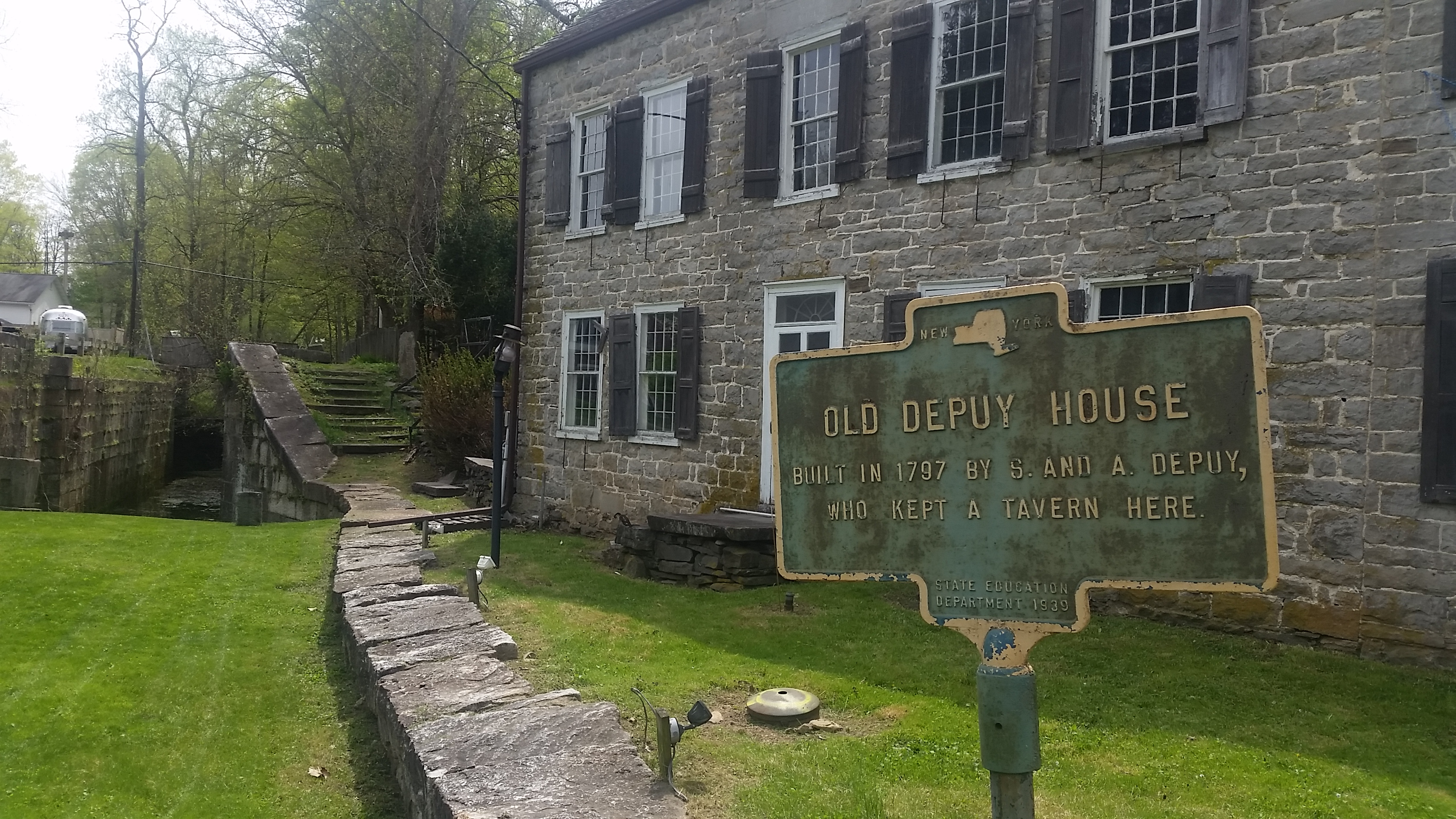 NY State Historical Marker for the Depuy Canal House